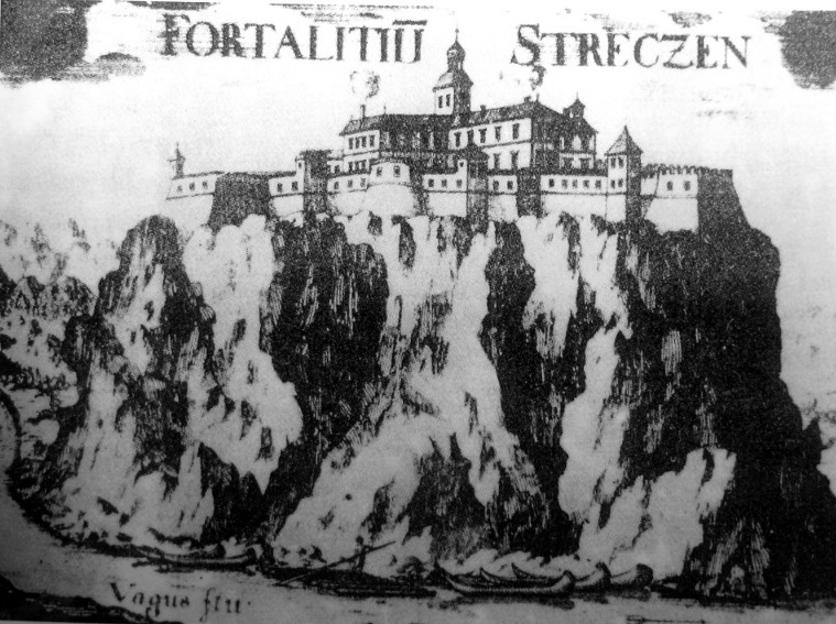 Castle Strečno, circa 1680